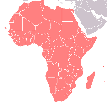 COVID-19 in Africa